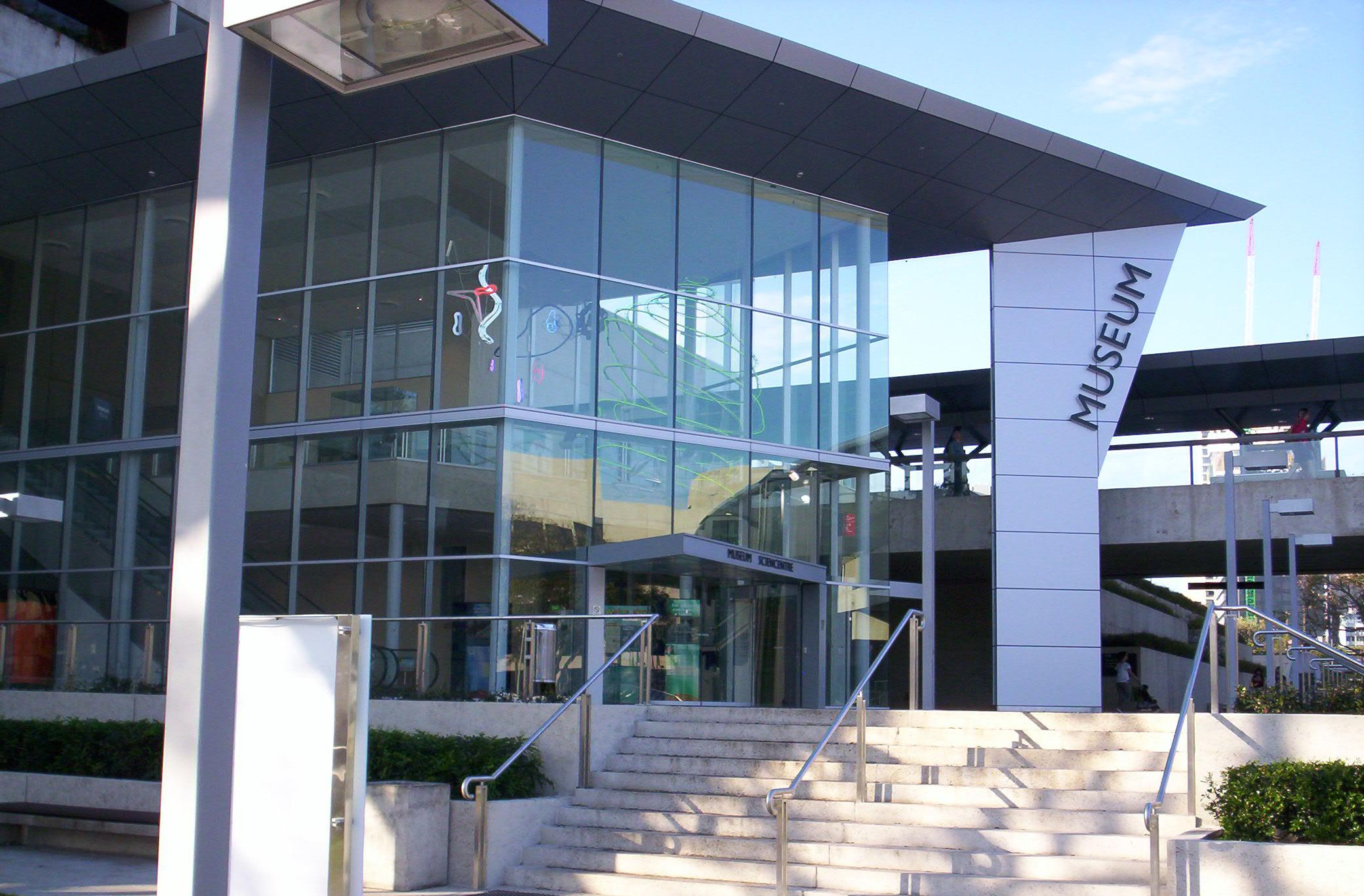 Queensland Museum and Sciencentre, at South Bank in Brisbane, Queensland, Australia